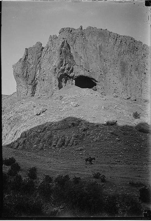 Title: Northern views. Cave of the prehistoric "Galilee Skull" Creator(s): American Colony (Jerusalem). Photo Dept., photographer Date Created/Published: [approximately 1900 to 1920] Medium: 1 negative : glass, stereograph, dry plate ; 5 x 7 in. Reproduction Number: LC-DIG-matpc-05551 (digital file from original photo) Rights Advisory: No known restrictions on publication. Call Number: LC-M32- B-142 [P&P] Repository: Library of Congress Prints and Photographs Division Washington, D.C. 20540 USA Notes: Title from: Catalogue of photographs & lantern slides ... [1936?]. Caption on negative: Cave of the prehistoric Galilee Skull. Date from Matson LOT cards. Gift; Episcopal Home; 1978. Format: Dry plate negatives. Stereographs. Collections: Matson (G. Eric and Edith) Photograph Collection Part of: G. Eric and Edith Matson Photograph Collection Bookmark This Record